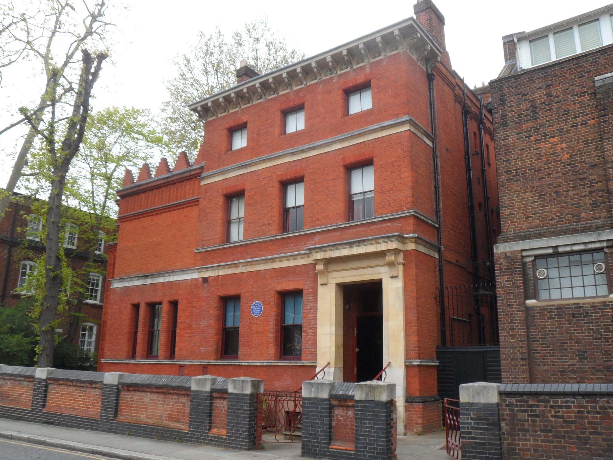 Lord LEIGHTON 1830-1896 Painter lived and died here